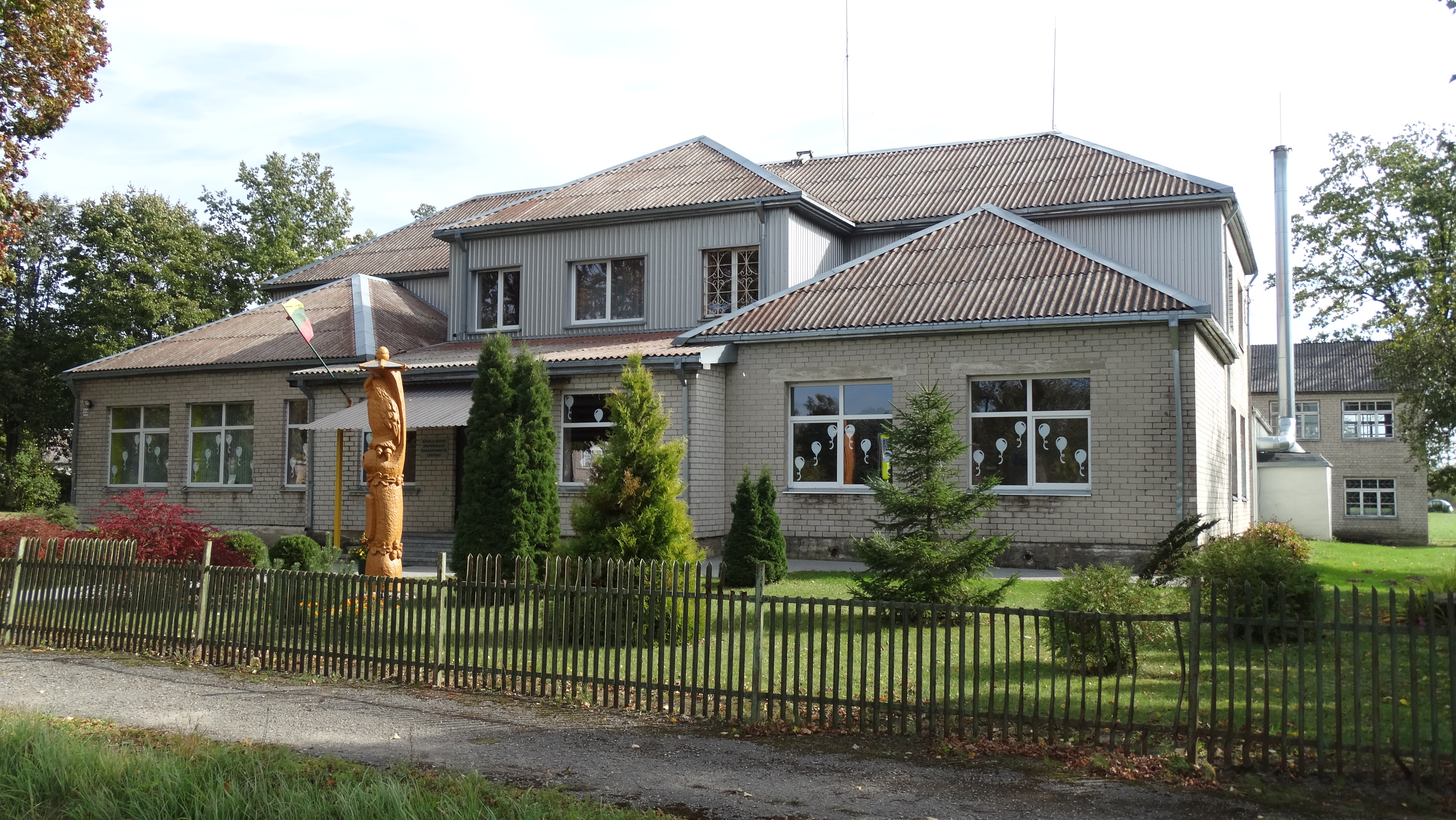 School, Ąžuolų Būda, Kazlų Rūda municipality, Lithuania